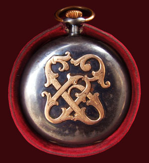 Watch with Gold Stamp